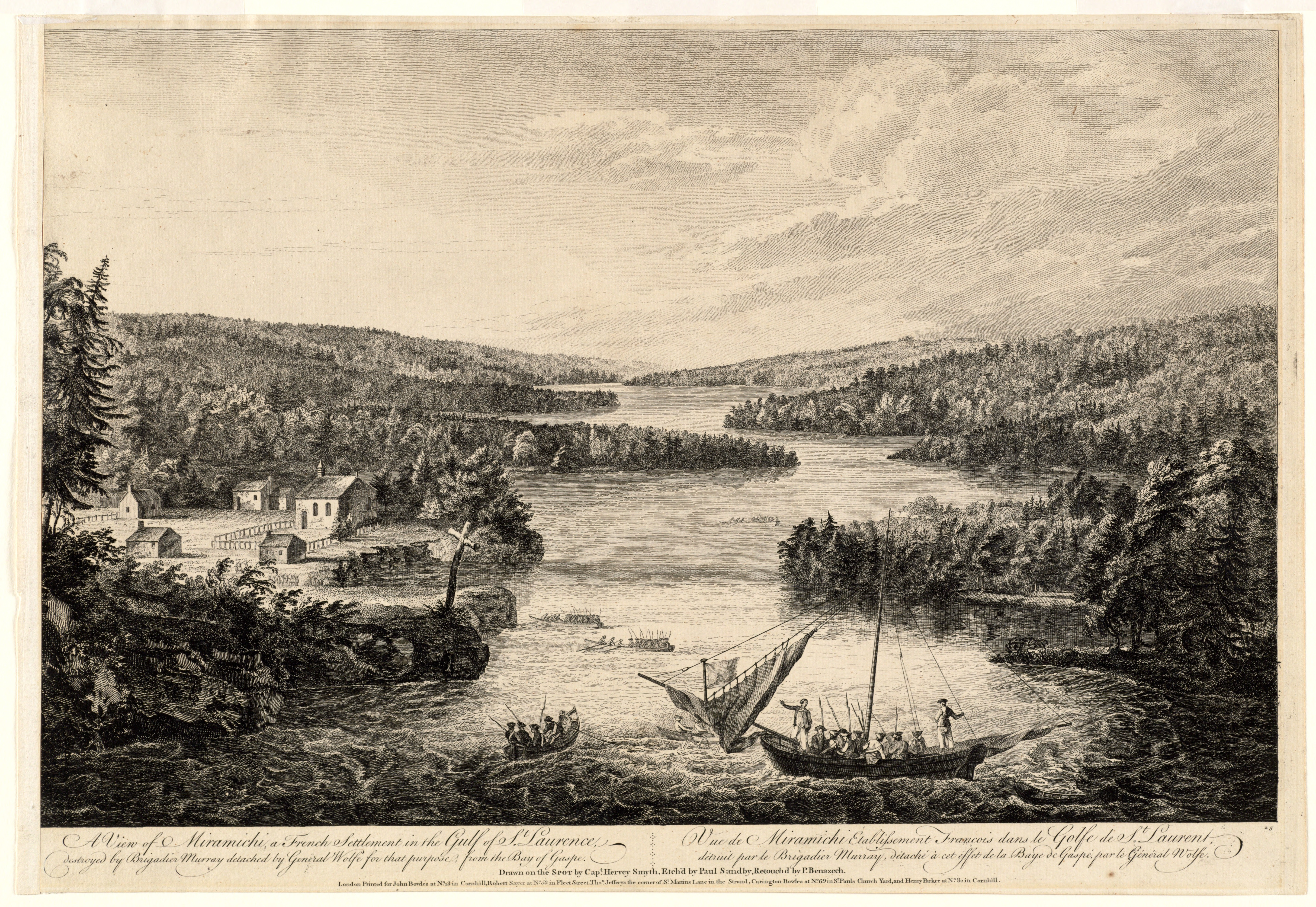 A view of Miramichi, a French settlement in the Gulf of St. Laurence, destroyed by Brigadier Murray detached by General Wolfe for that purpose, from the Bay of Gaspe Vue de Miramichi establissement Francois dans le Golfe de St. Laurent, détruit par le Brigadier Murray, détaché a cet effet de la Baye de Gaspé, par le Général Wolfe / / drawn on the spot by Capt. Hervey Smyth; etched by Paul Sandby; retouched by P. Benazech. Richard H. Brown Revolutionary War Map Collection, The Boston Public Library